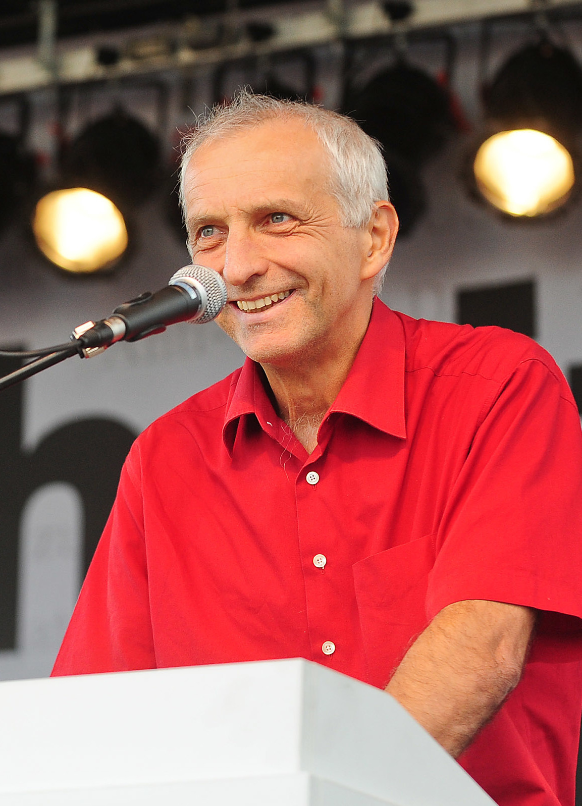 Thilo Weichert auf der Demonstration "Freiheit statt Angst" 2009